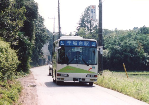 Sarashina bus, local community bus service of Chiba city